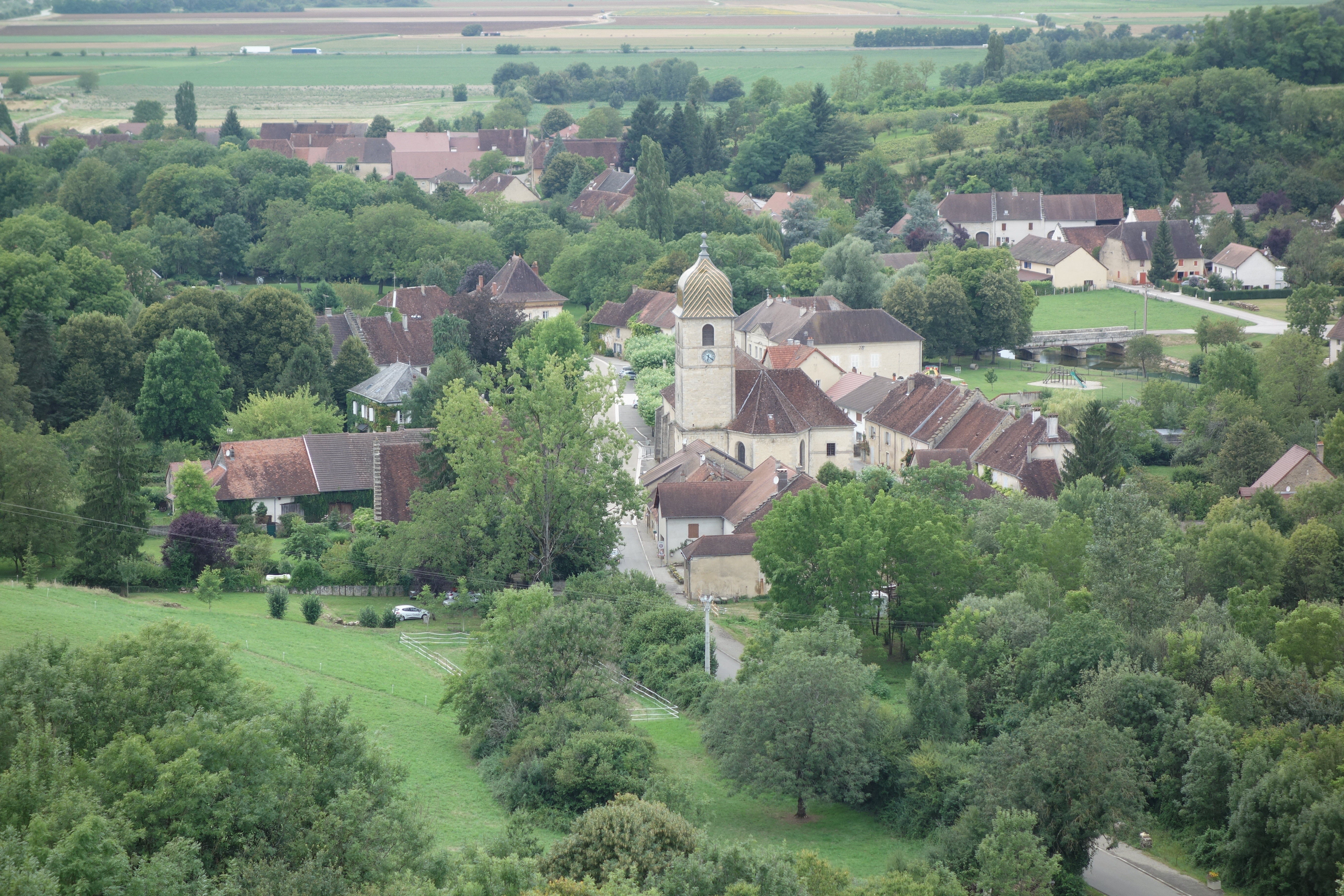 Arlay castle